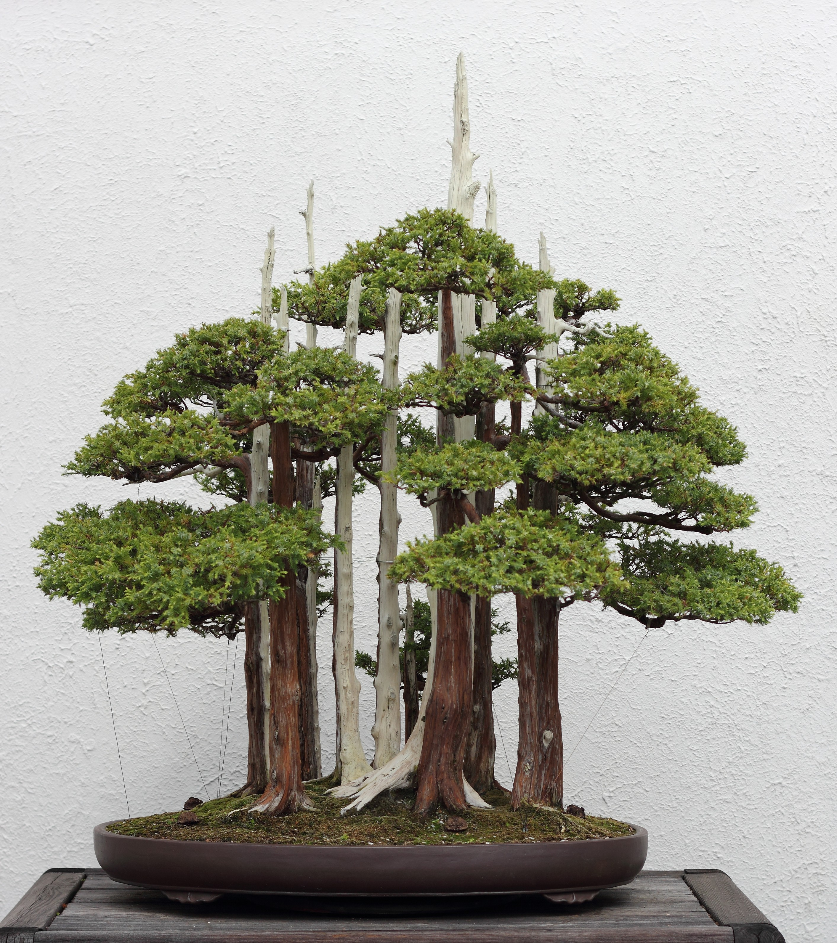 John Naka's famous bonsai masterpiece Goshin, on display at the National Bonsai & Penjing Museum of the National Arboretum in Washington, DC. It consists of 11 Foemina juniper trees (Juniperus chinensis 'Foemina'), representing Naka's 11 grandchildren.